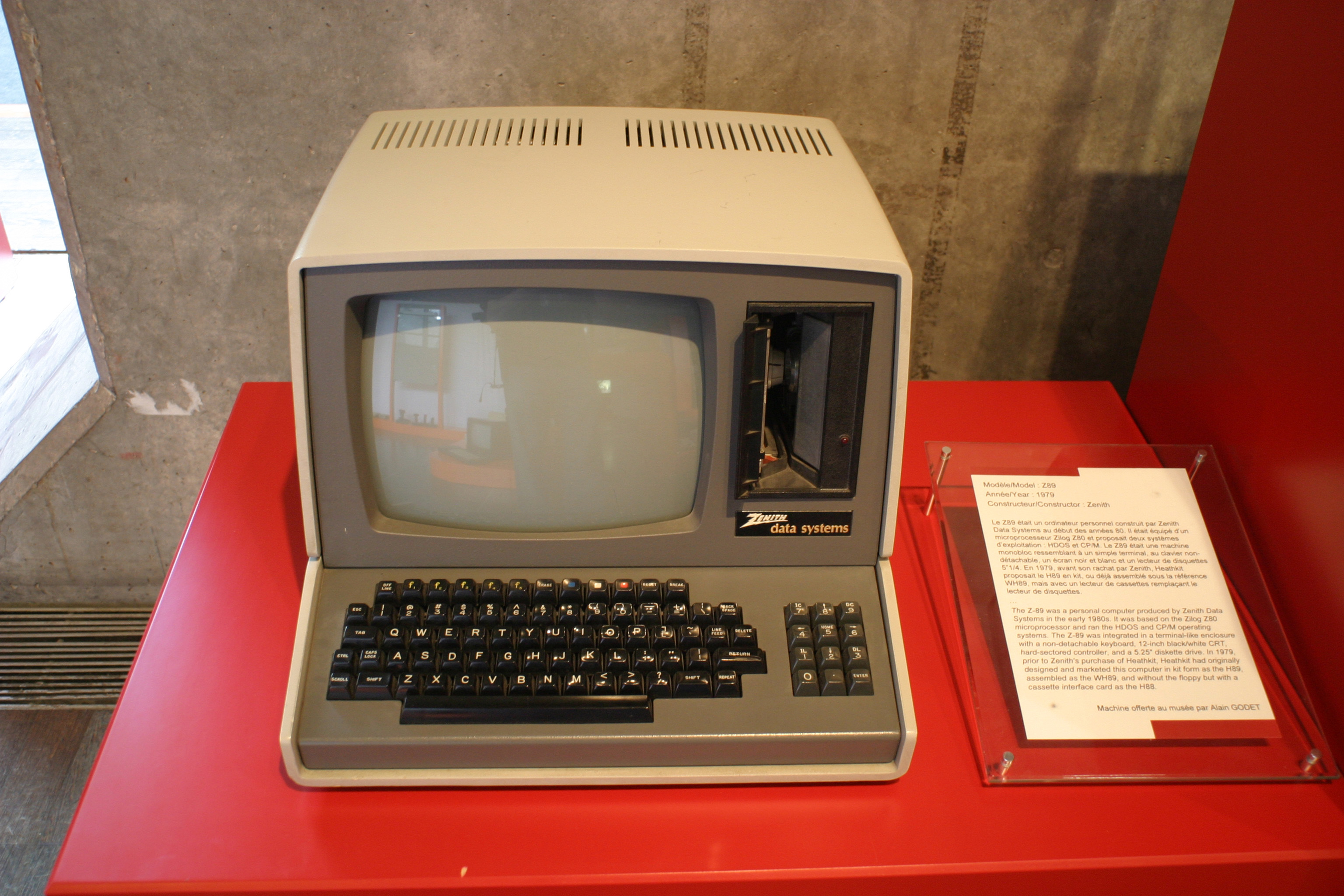 Zenith Z89 in Paris Grande Arche 2008